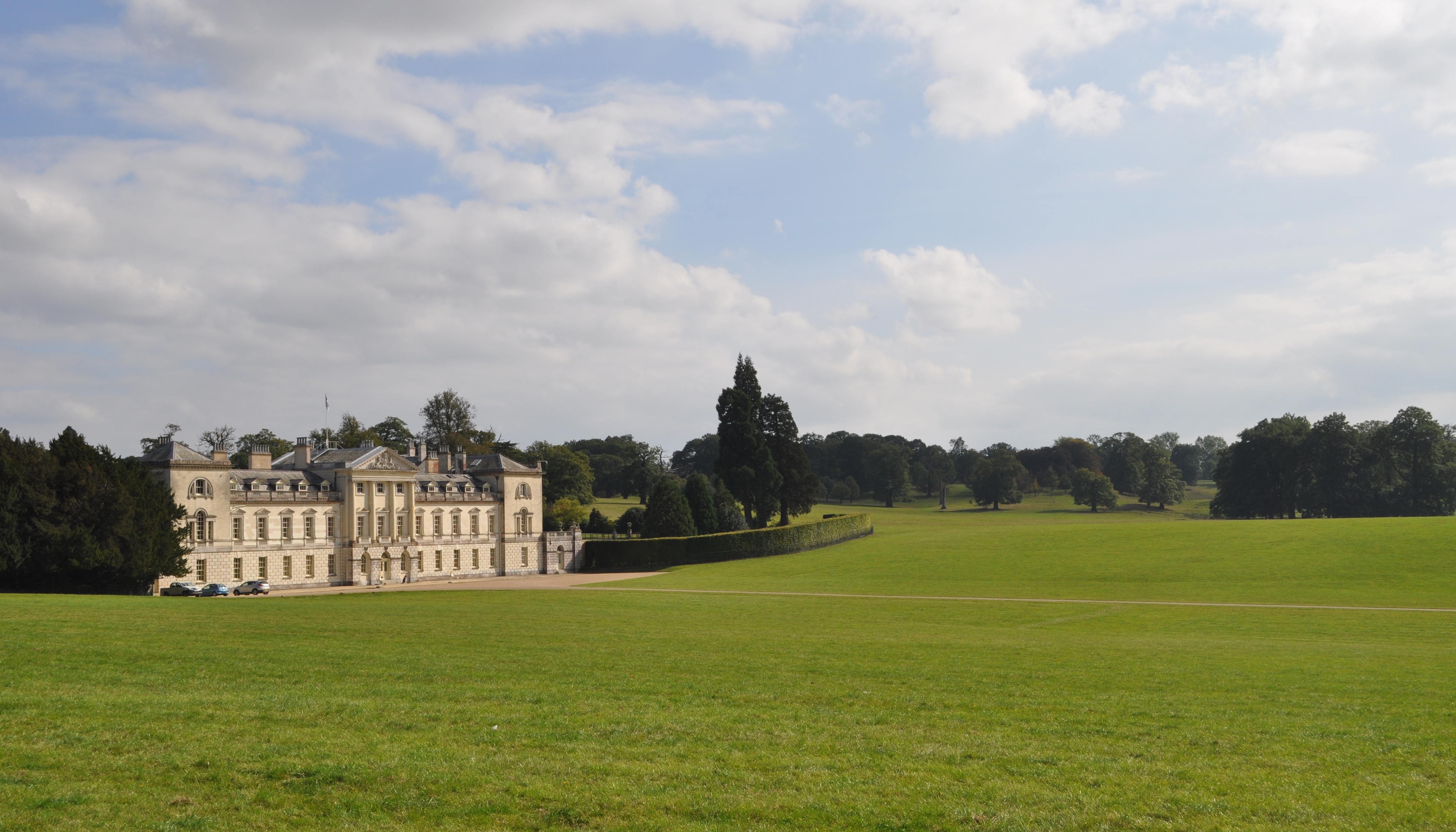 Woburn Abbey Wikidata has entry Q1629626 with data related to this item.